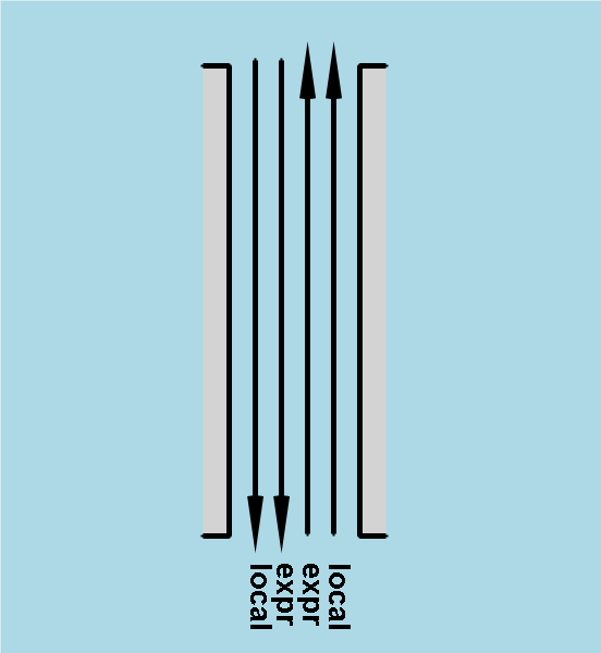 NYC Subway station layout vc typical side 4 tracks